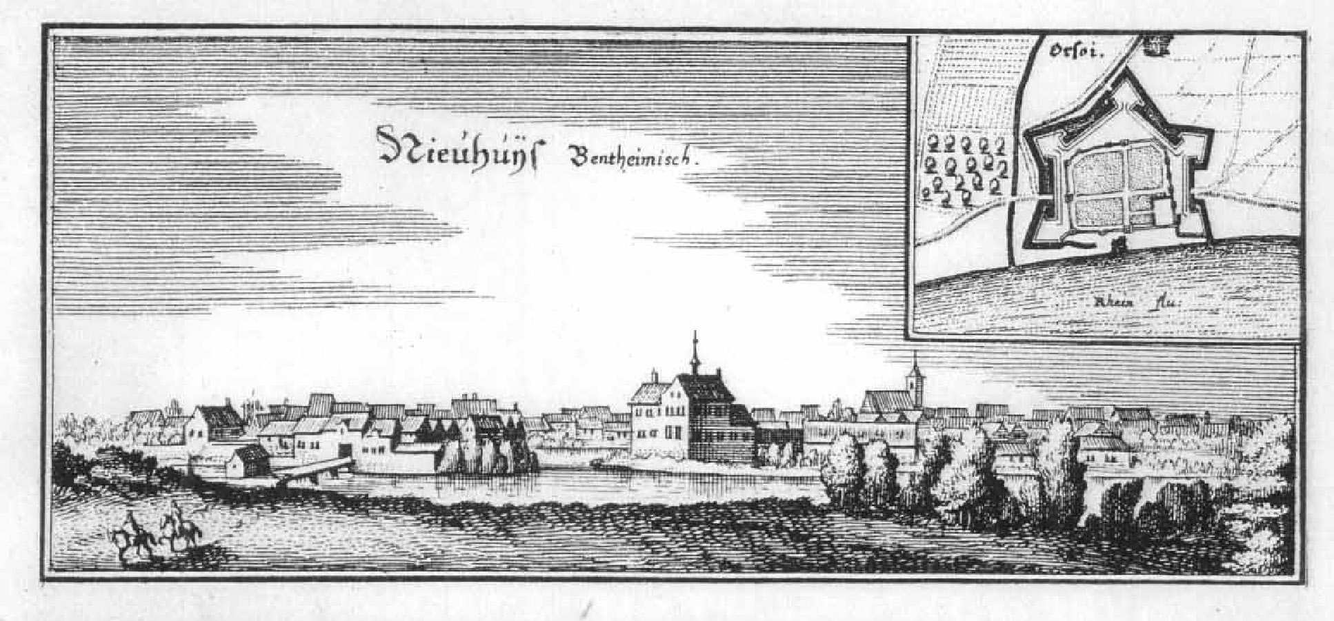 This is a scan of the historical document